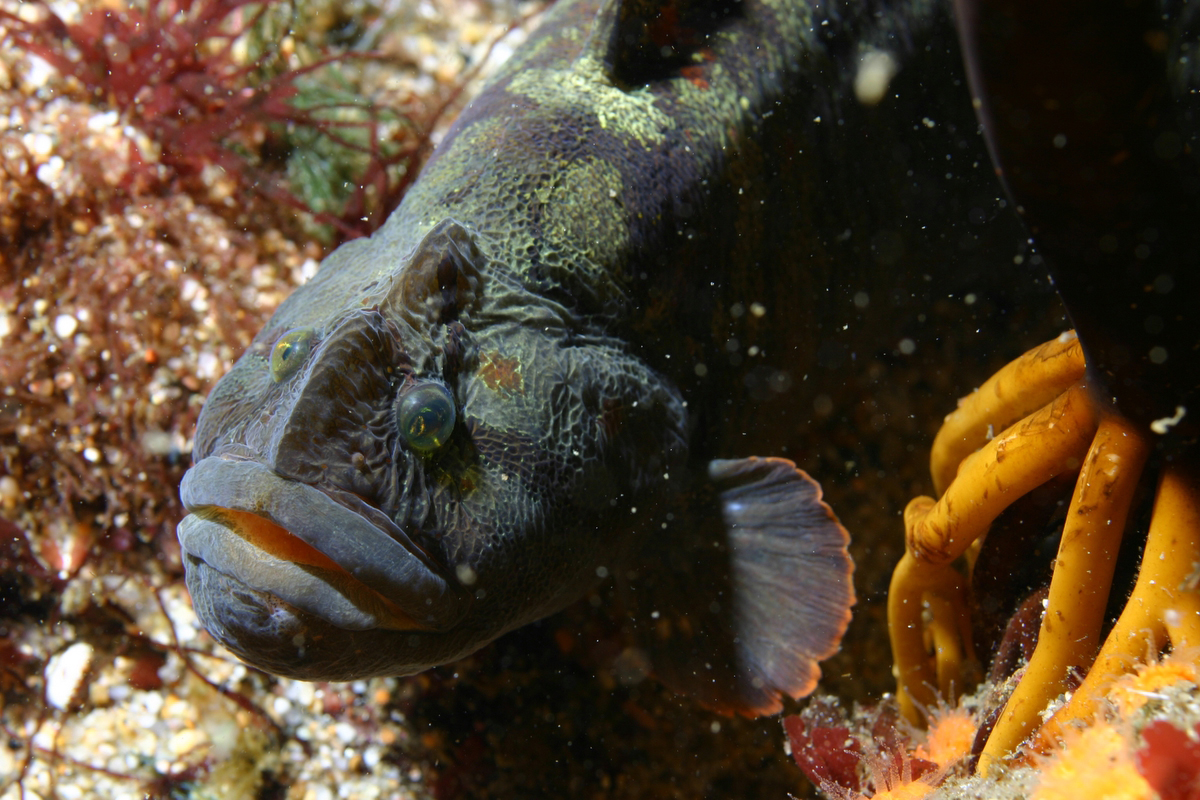 Monkeyface Prickleback - Cebidichthys violaceus. Courtesy of Monterey Bay Aquarium.